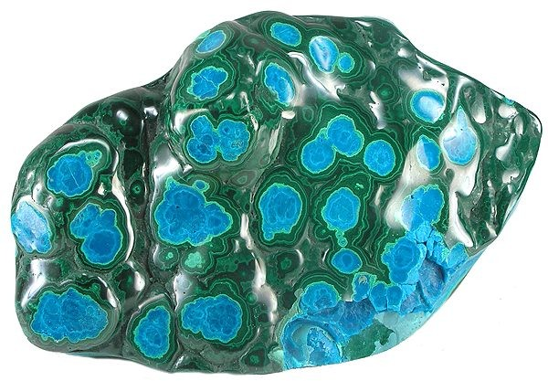 Malachite, Chrysocolla Locality: Katanga (Shaba), Democratic Republic of Congo (Zaïre) (Locality at ) There was fierce bidding for the last one of these we had, and you can see why. This one is at least as spectacular! It is an eye-catching specimen of malachite and chrysocolla that have formed together to create gorgeous circles of deep turquoise-colored chrysocolla in a field of deep green malachite - the reverse of the other one we had, which had green malachite circles amidst the blue chrysocolla. Polished to bring out the beauty better. This is a BIG specimen, super-showy! Some of the layers are chipped away in one area on an edge, which you could see as a detraction, but to me, it is fascinating to see how the layers formed, and to note the gem-quality of the chrysocolla here (which is sometimes used in jewelry). 19.4 x 12.6 x 4.8 cm